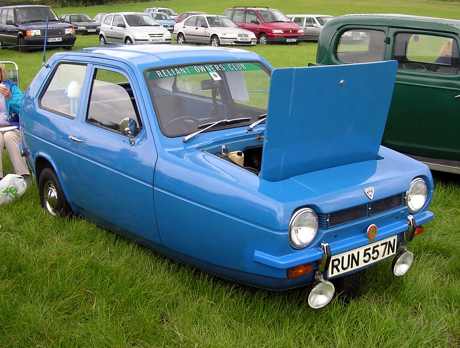 1974 Reliant Robin at Bristol Car Show, The Downs, Bristol, England. Taken by Adrian Pingstone in June 2004 and released to the public domain.